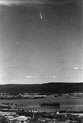 Widely circulated newspaper photo of Swedish "ghost rocket", photographed July 9, 1946, by Erik Reuterswärd, Guldsmedshyttan, Sweden.